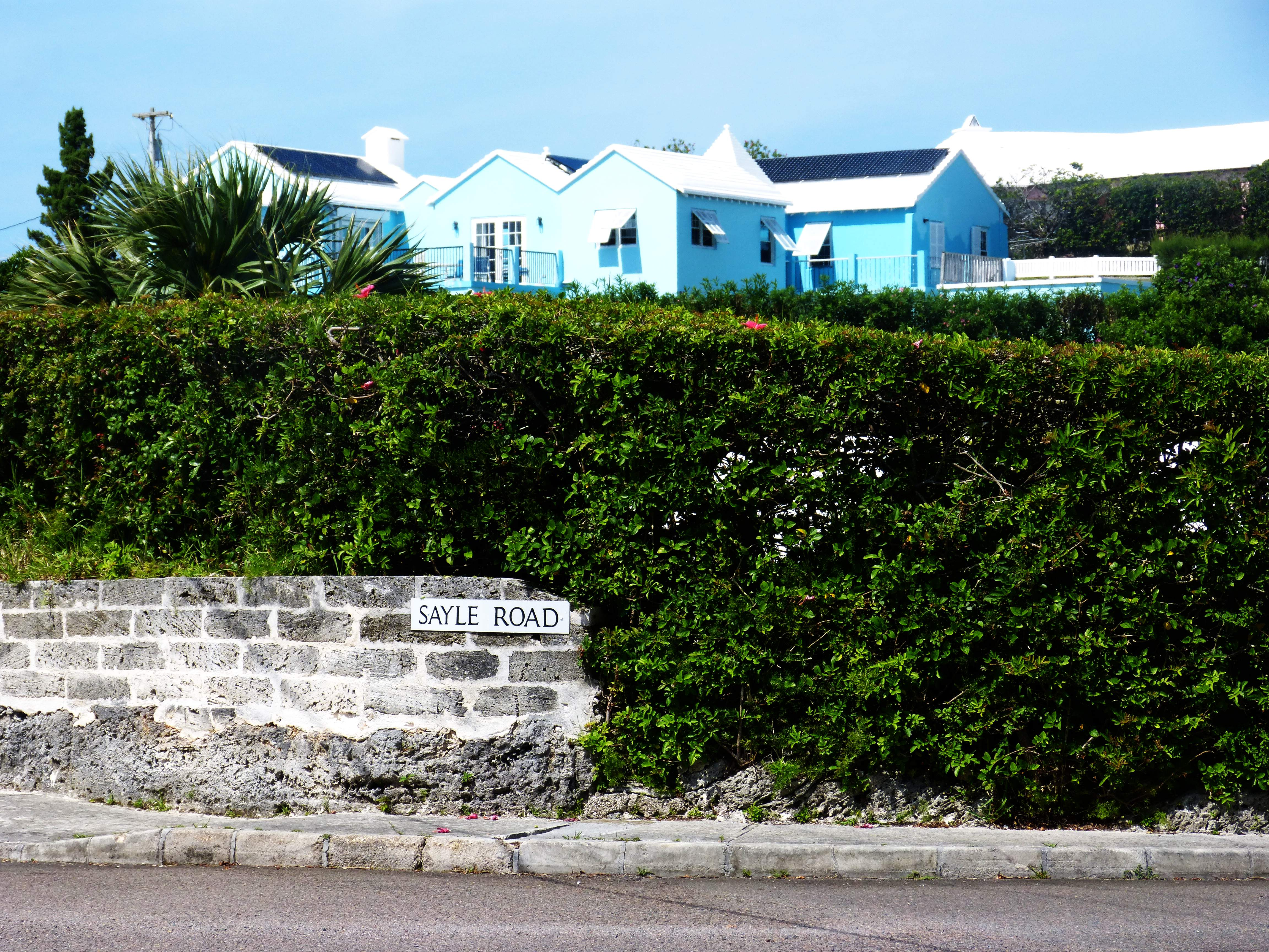 A sign marking the upper end of Sayle Road (ending in an intersection with Collector's Hill (road), in Devonshire, Bermuda. The road moves through lands once owned by William Sayle.